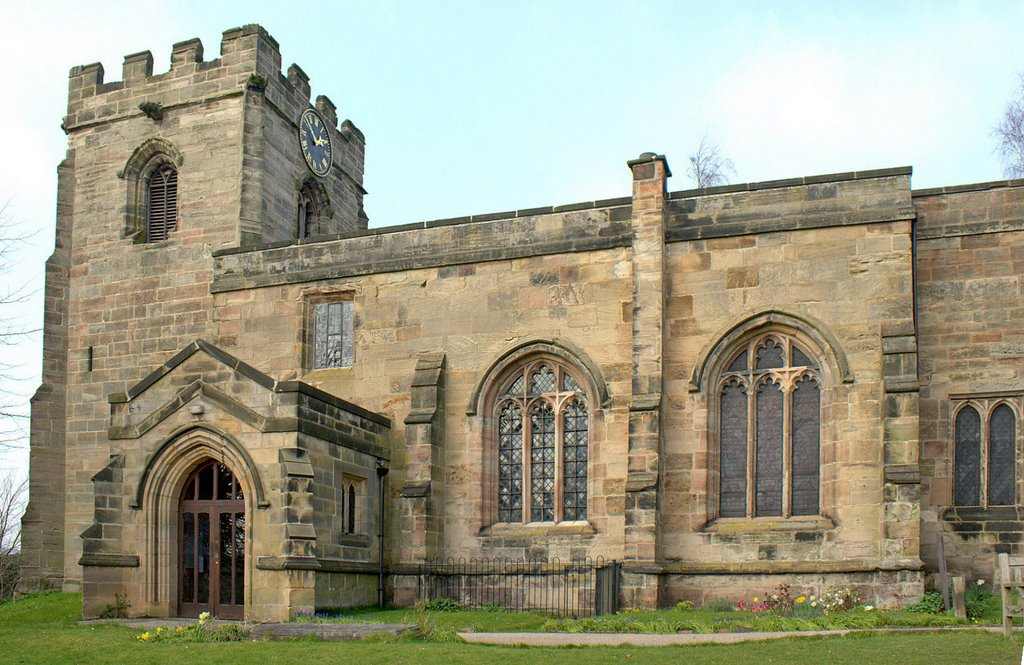 Nave and west tower of St Helen's parish church, Etwall, Derbyshire, seen from the south